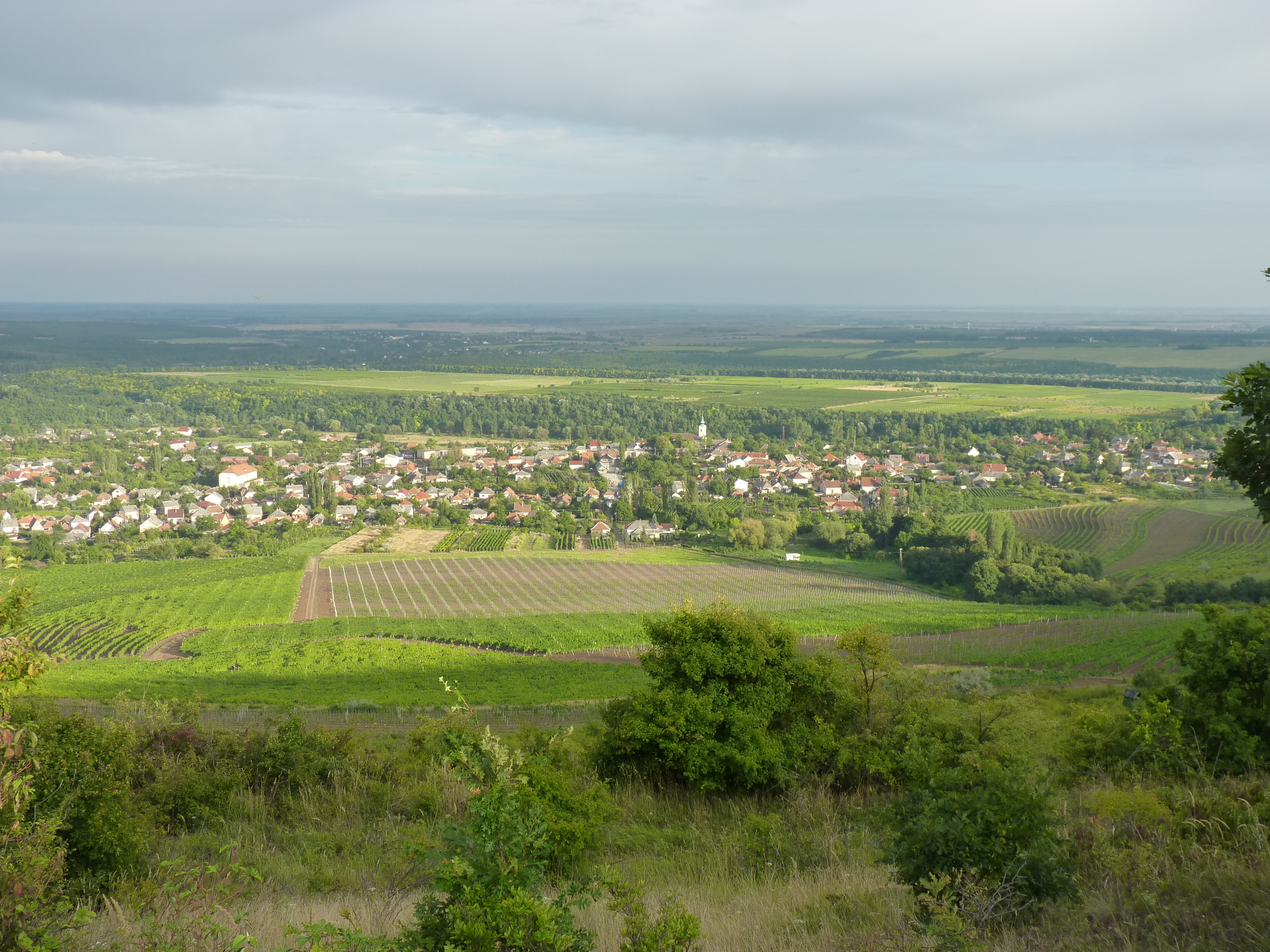 View of Abasár with vineyards from Sár Hill